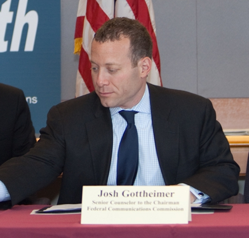 Josh Gottheimer, June 6, 2012 - FCC Headquaters | Washington, DC